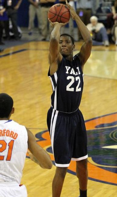 Justin Sears shoots for Yale